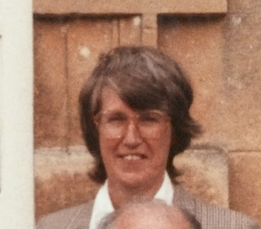 Starting from back row left moving clockwise, man with glasses, Roger Gibbs; Sir Stanley Peart; Dr Peter Williams, Dame Bridget Ogilvy; Lord Swann; Dr Gordon Smith; Sir William Paton; Sir David Steel; Helen Muir C.B.E.